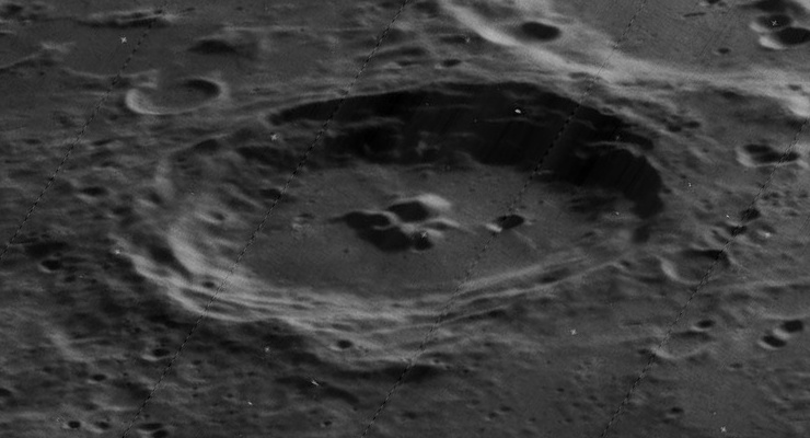 Oblique view of Bhabha, on the far side of the moon, facing west.